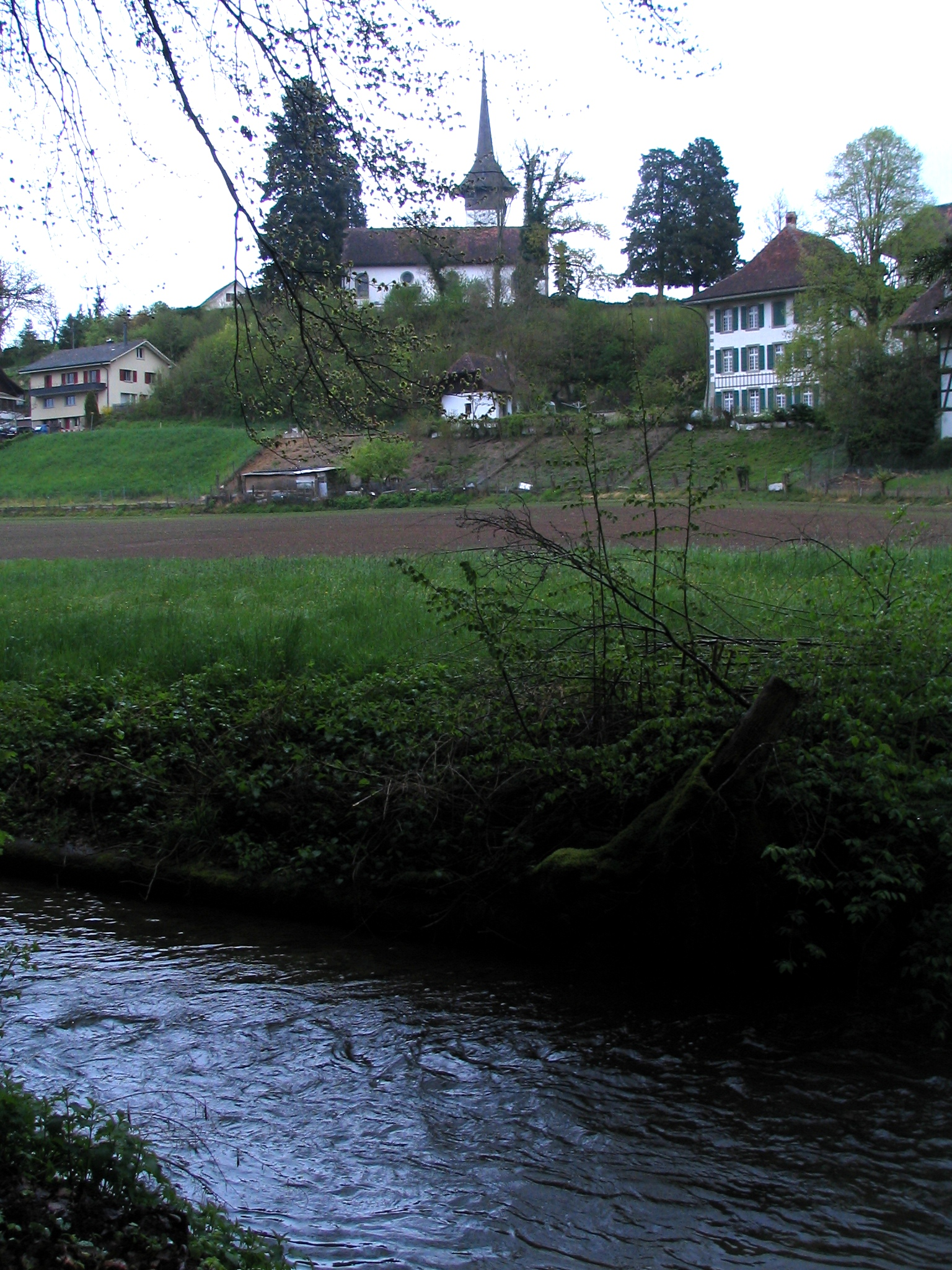 The river Biberen and the church of Ferenbalm BE, Switzerland